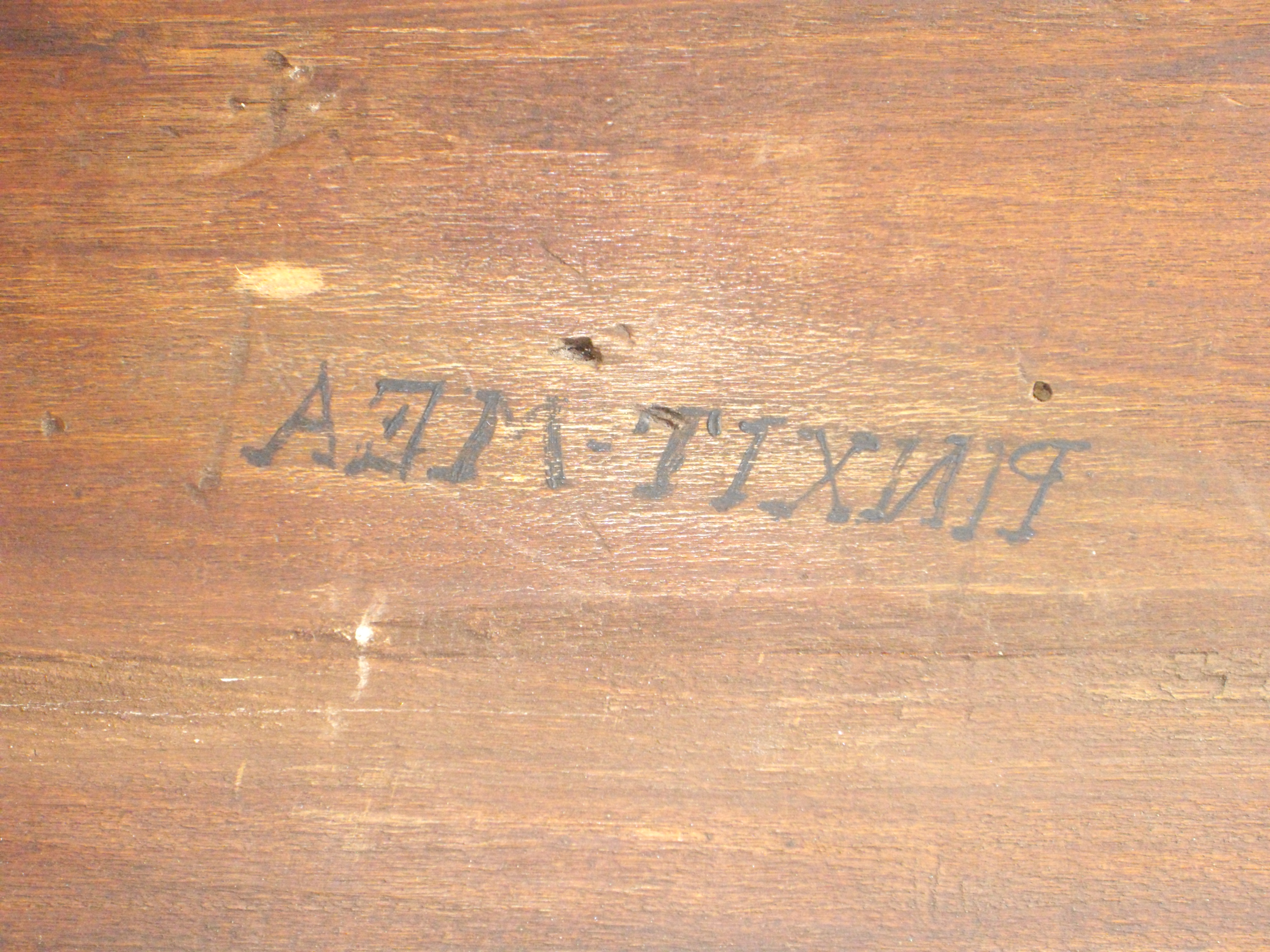 Detail of inscription on reverse of Lucan Portrait of Leonardo da Vinci. Believed by some experts to be a self-portrait and therefor the work upon which a number of later paintings (such as that in the Uffizi) are based.